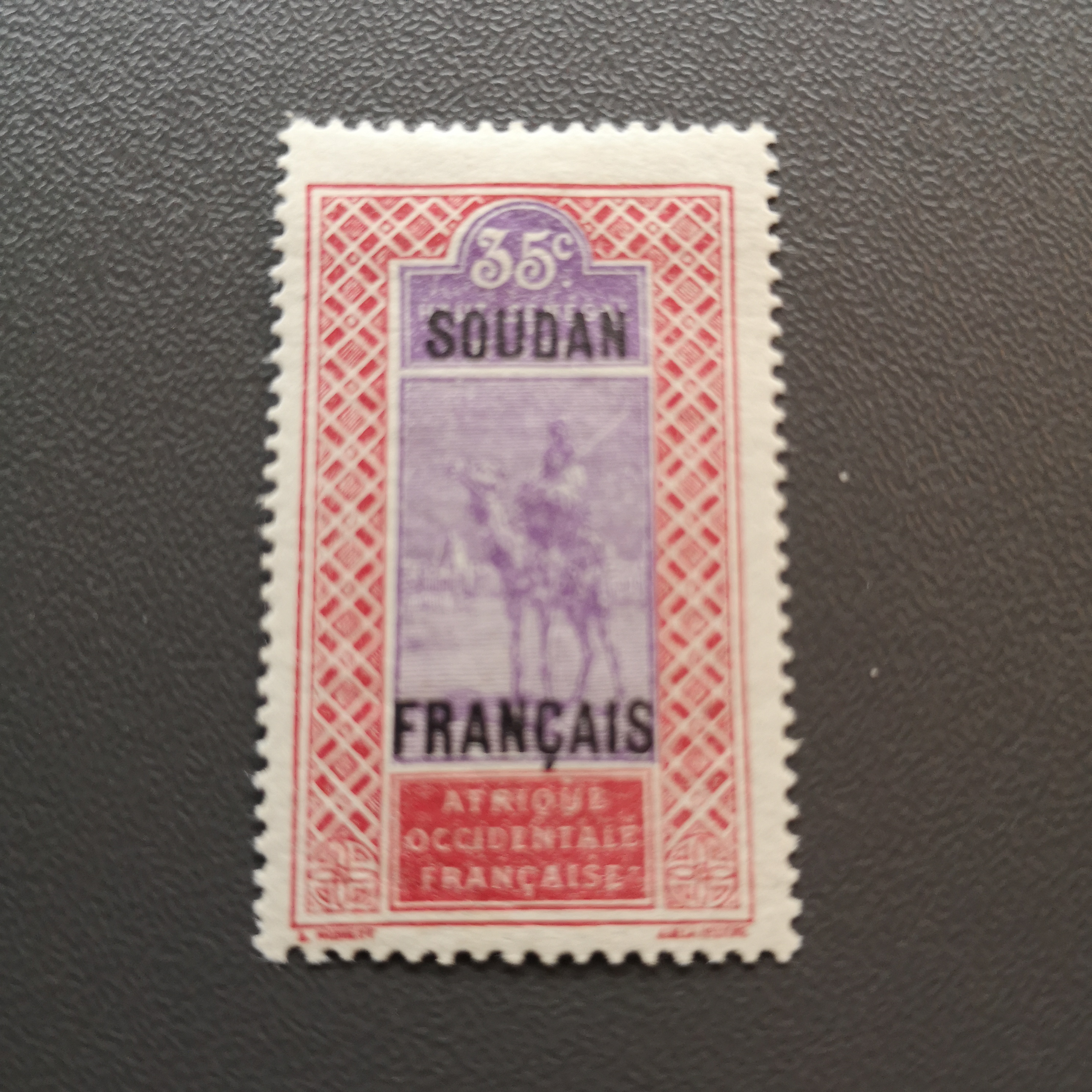 This stamp was mentioned by Louis Aragon in Le paysan de Paris 1926